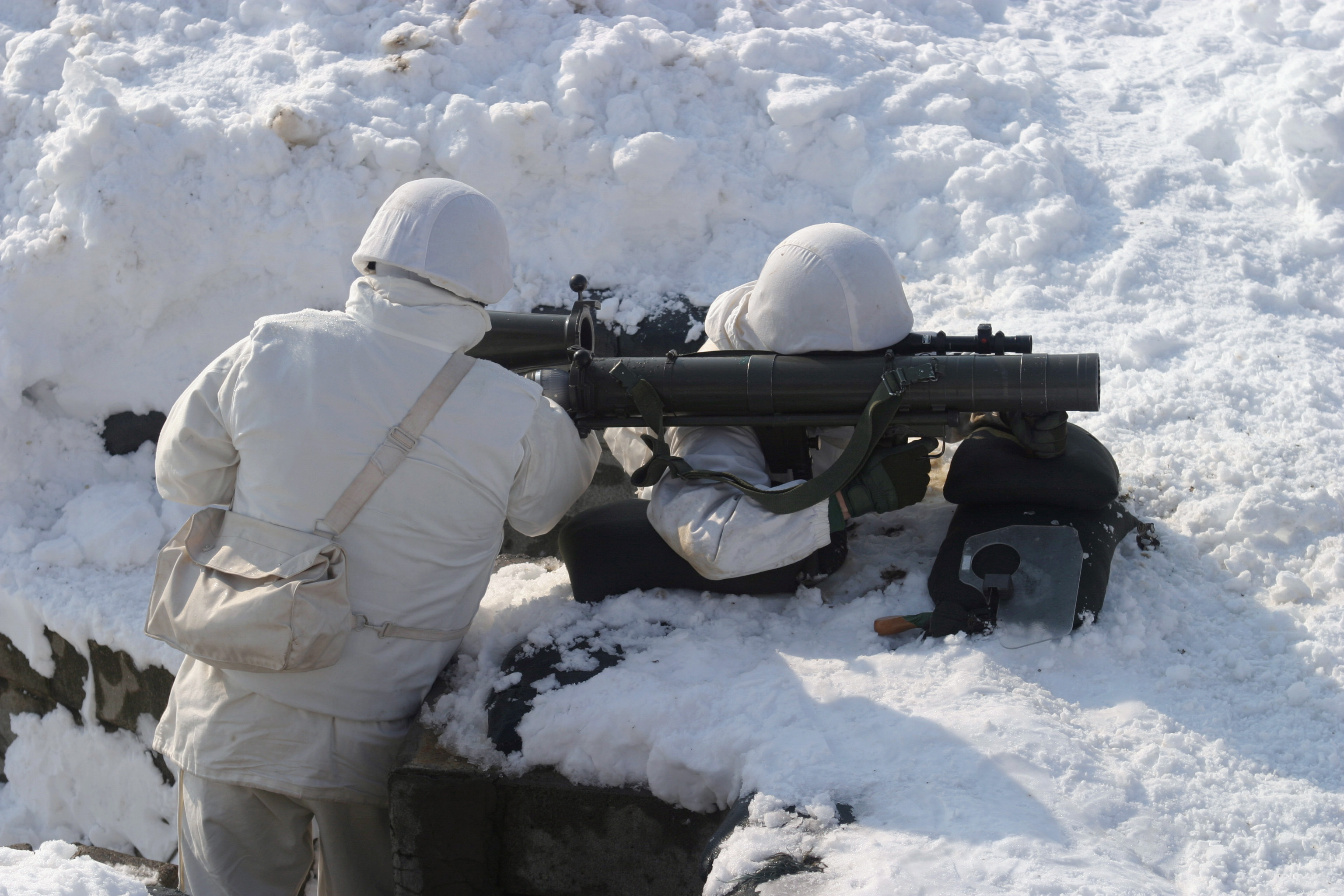 Japanese Ground Self Defense Force (JGSDF) Soldiers from the 20th Infantry Regiment (dressed in white cold-weather gear), prepare to fire a Carl Gustaf 84 mm M2 recoilless rifle, during a live fire exercise conducted at the snow-covered Ojojibara Maneuver Area of Sendai, Japan, while participating in Exercise FOREST LIGHT 2004. Forest Light is a bi-lateral training exercise conducted between the US Marine Corps (USMC) and the JGSDF.